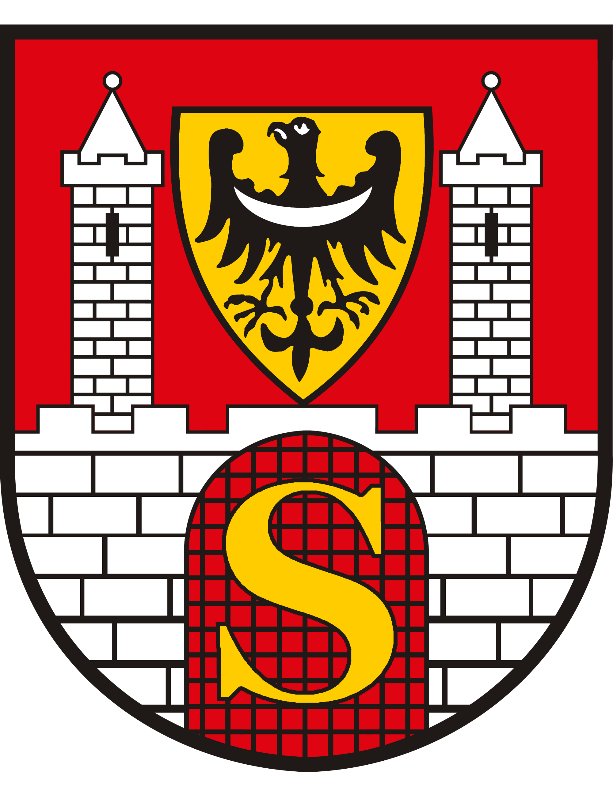 Coat of arms Żagań (1945 - 1968)